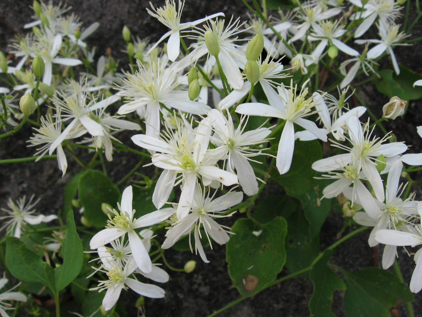 Clematis terniflora Location: Kiyokawa Vill., Kanagawa, Japan